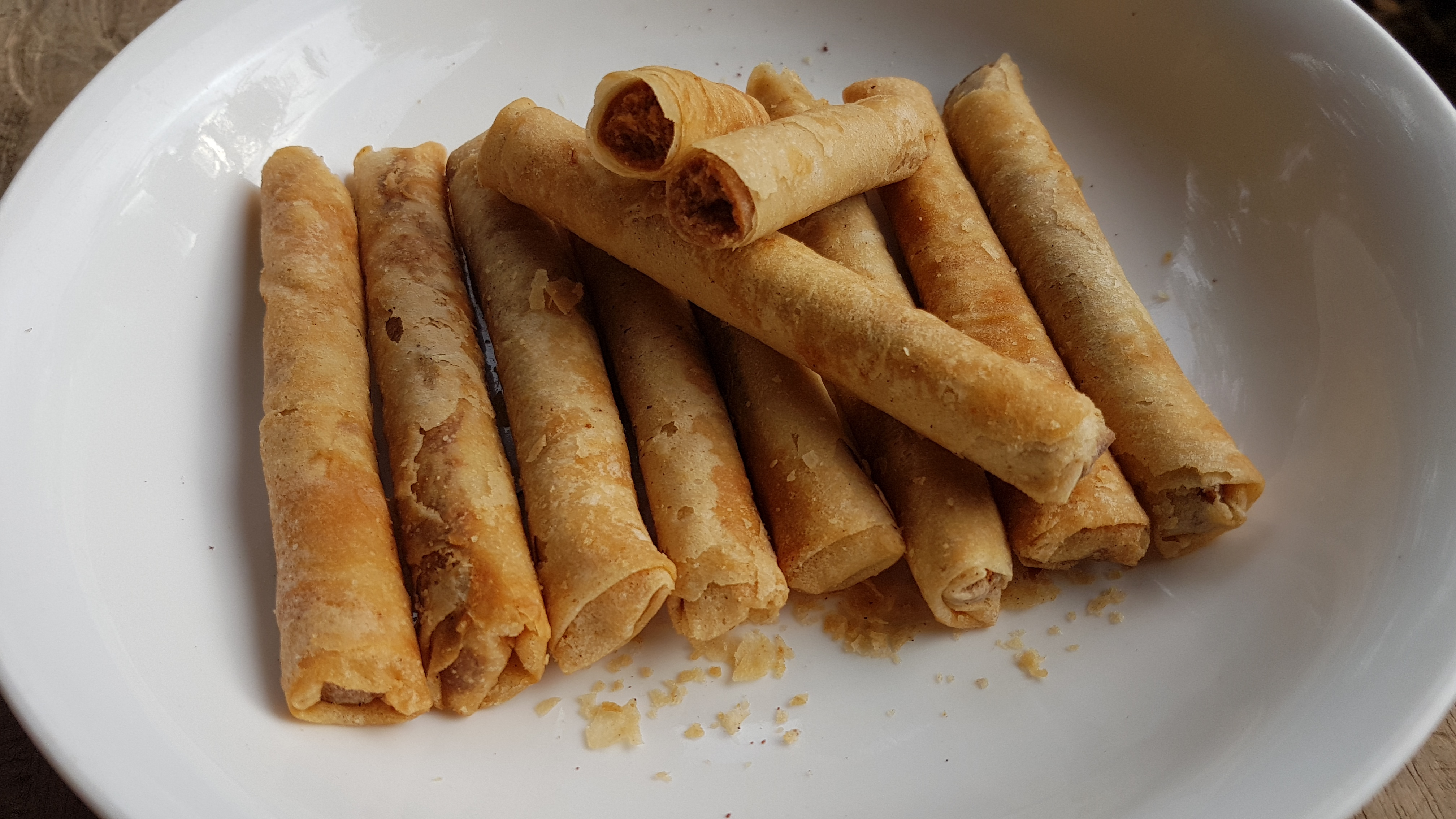 Turron de mani, a dessert of crushed peanuts in an egg crepe wrapper from the Philippines. Also known as turon de mani, peanut turon, or peanut lumpia.